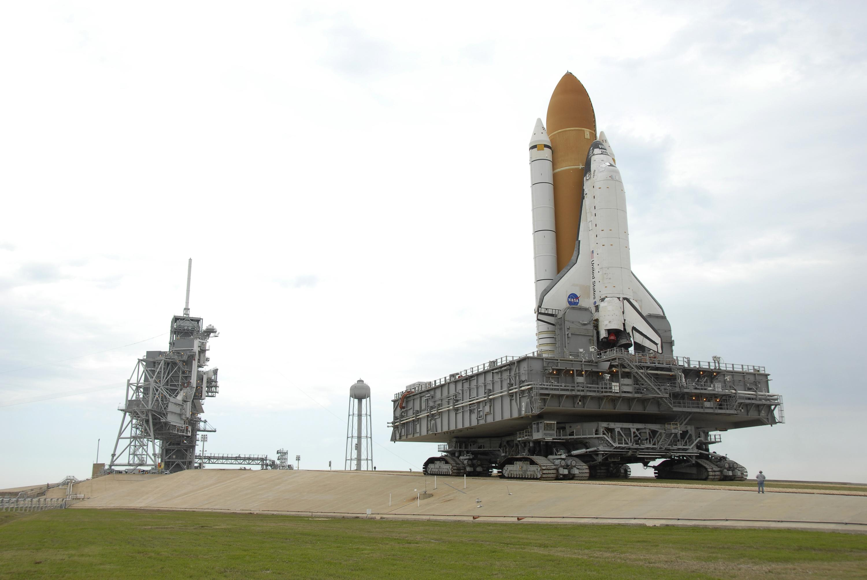 KENNEDY SPACE CENTER, FLA. -- Space Shuttle Atlantis, atop the mobile launcher platform and crawler-transporter, slowly makes its way up the ramp to the hardstand on Launch Pad 39A. At left is the fixed service structure, with the 80-foot lightning mast on top, and the open rotating service structure. Between them is the water tower, containing 300 gallons of water used for sound suppression at liftoff. First motion of the shuttle out of the Vehicle Assembly Building was at 8:19 a.m. The 3.4-mile trip to the pad along the crawlerway takes about 6 hours. The mission payload aboard Space Shuttle Atlantis is the S3/S4 integrated truss structure, along with a third set of solar arrays and batteries. The crew of six astronauts will install the truss to continue assembly of the International Space Station. Launch is targeted for March 15